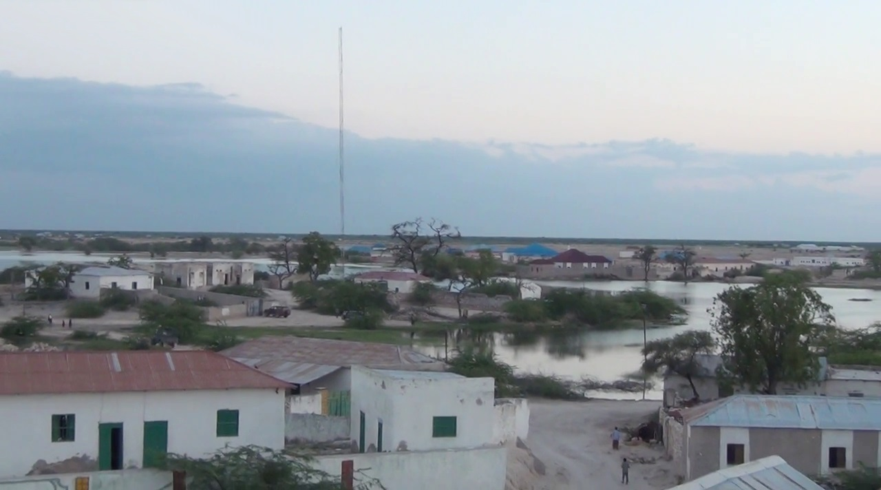 Ceel Buur (El Bur), capital of the Ceel Buur district (Galguduud Region, central Somalia).